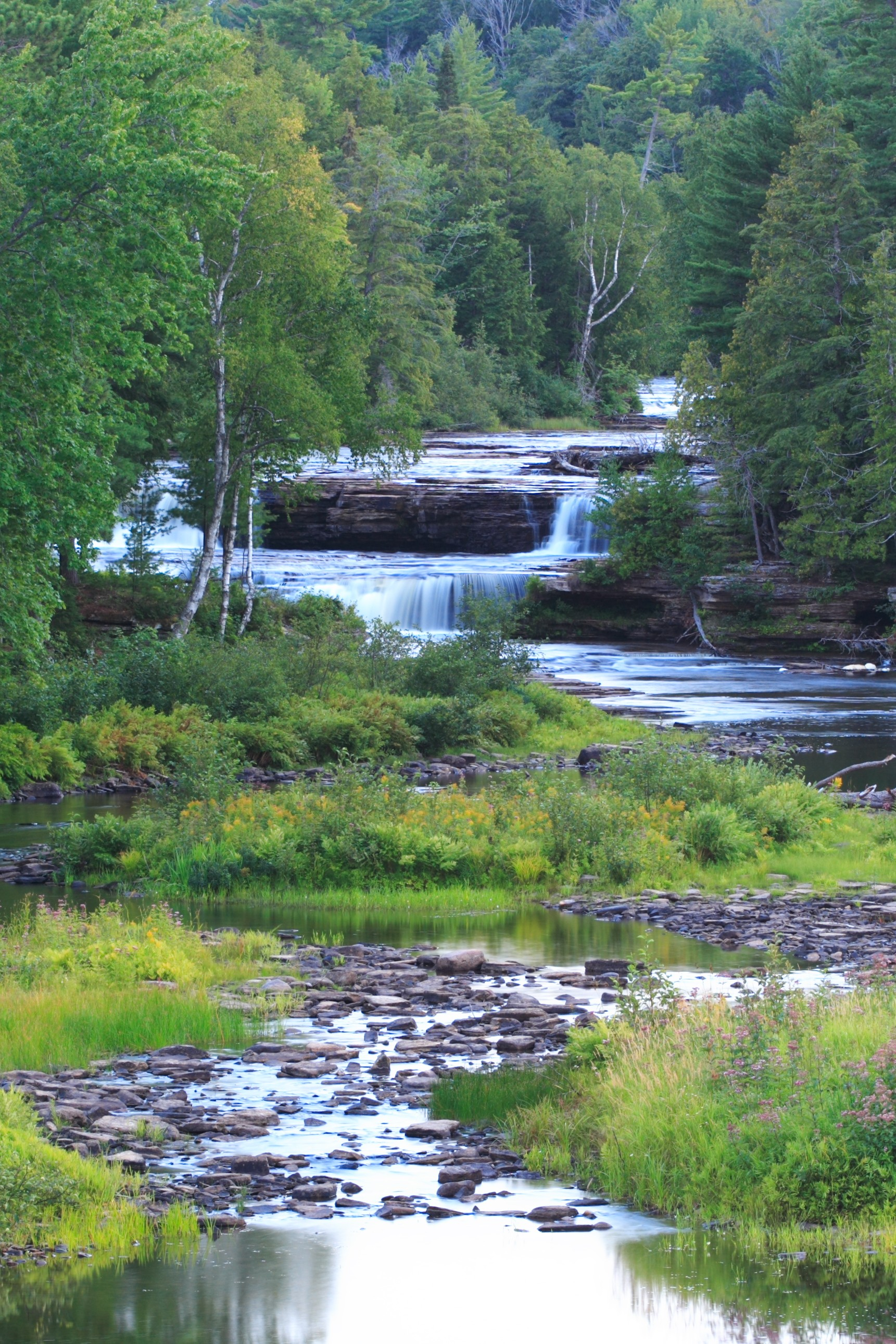 Lower Falls, Tahquamenon Falls State Park, Michigan